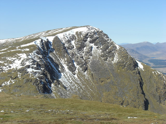 Beinn Achaladair East side, after navigating down the slope in the left mid ground, which proved a bit tricky with the snow.